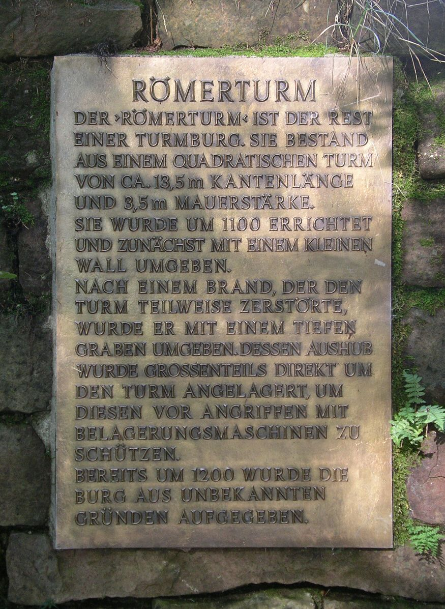 Plaque at the ruins of Langensteinbach Castle (Municipality of Karlsbad, Germany), describing its history.